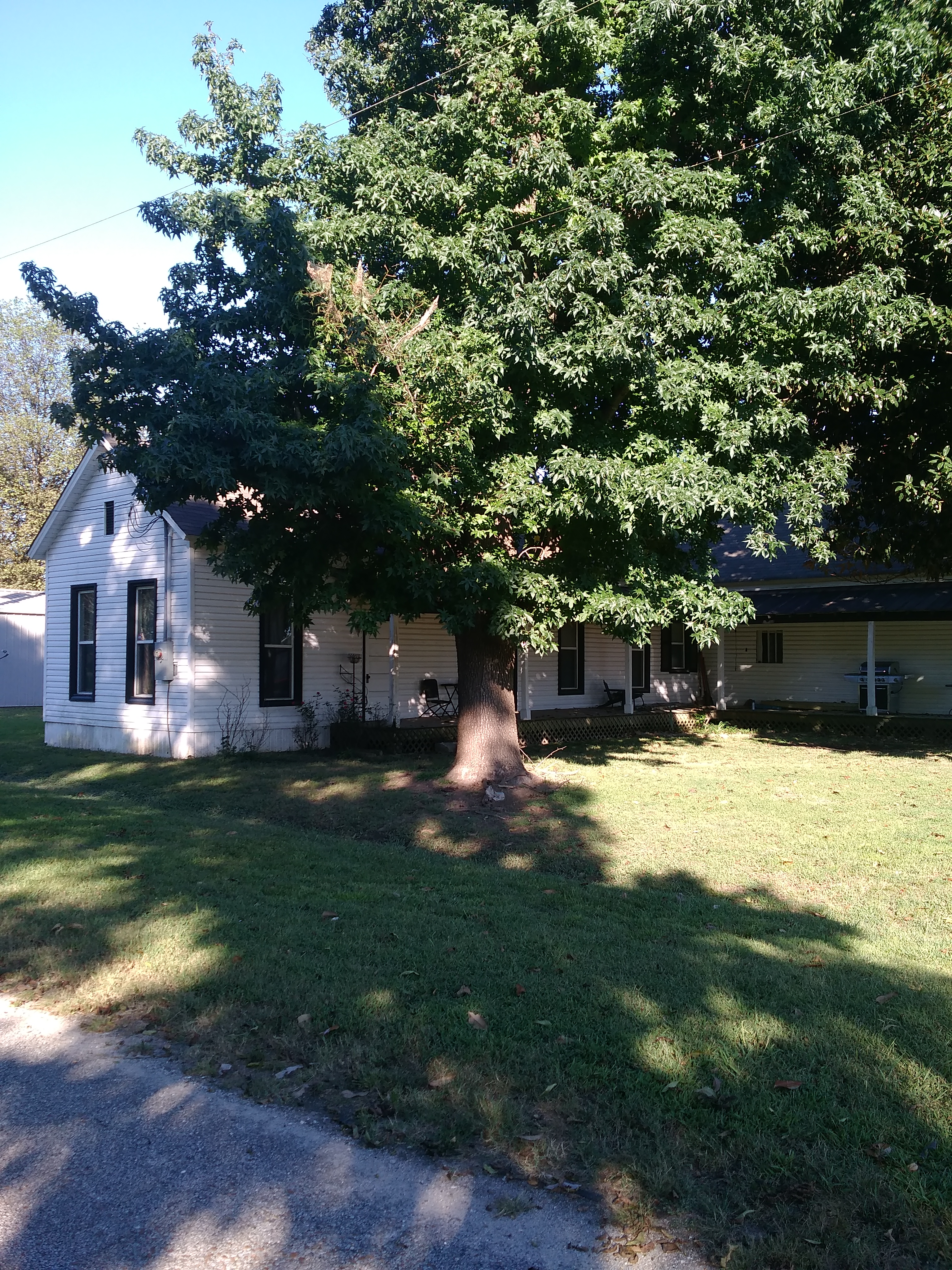 Dr. F.W. Buercklin House